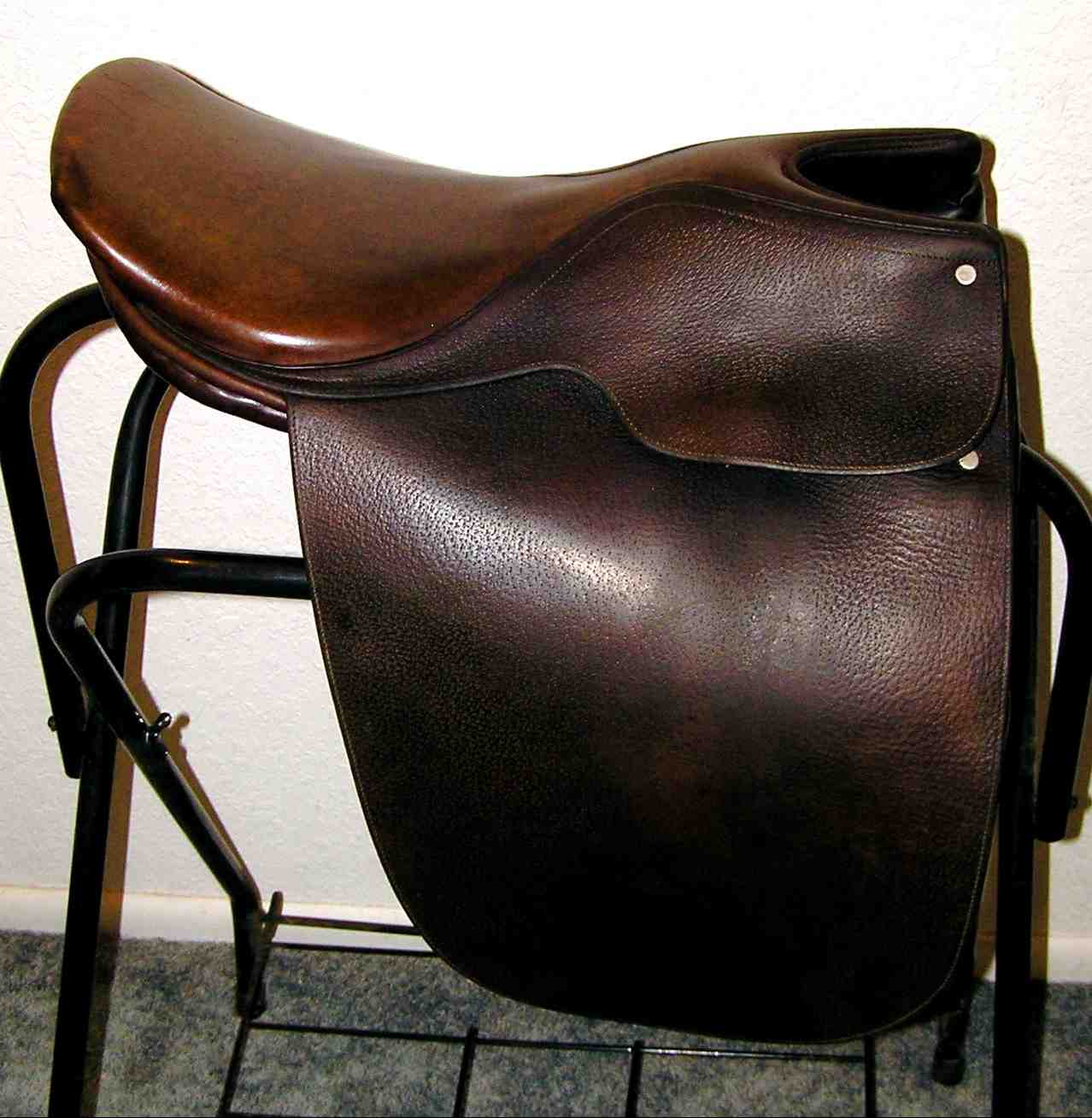 A Saddle Seat style English saddle, also known as a Lane Fox or Cutback.